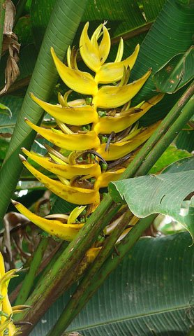 Dick Culbert: This bright yellow species in Costa Rica looks like a cross between Heliconia beckneri and H. clinophila. Unidentified.